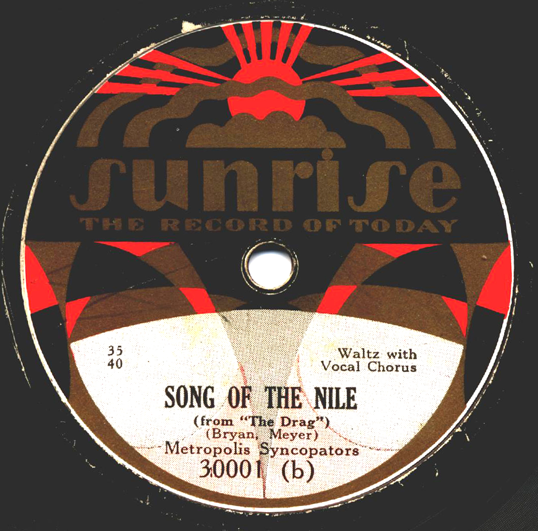 Sunrise, US record label produced by Grey Gull c. 1929-30.